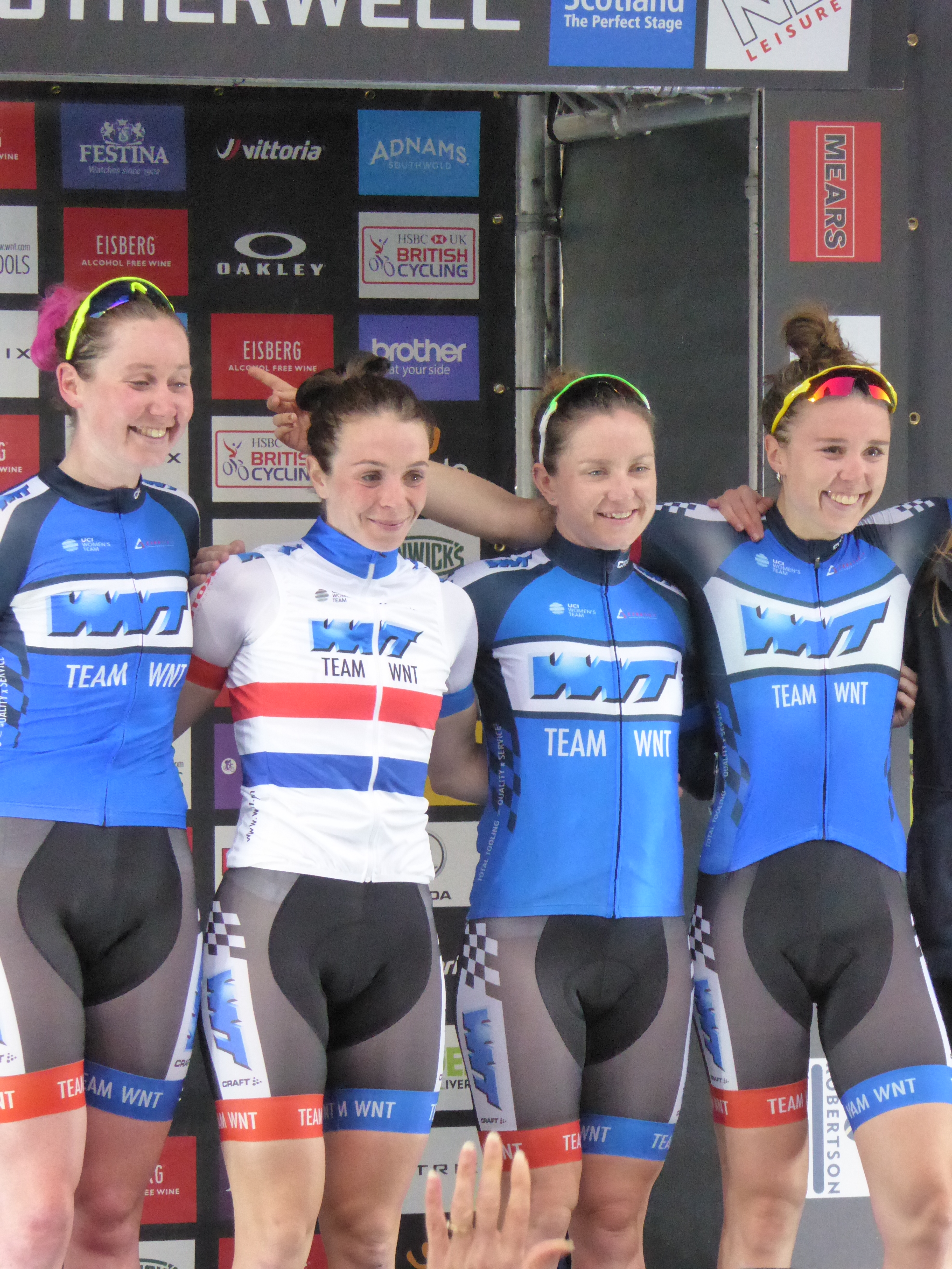 Team WNT, teams classification winner of Round 7 of the Matrix Fitness GP Series in Motherwell, on 23 May 2017.